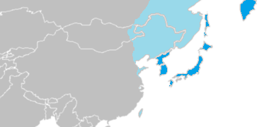 Asia map